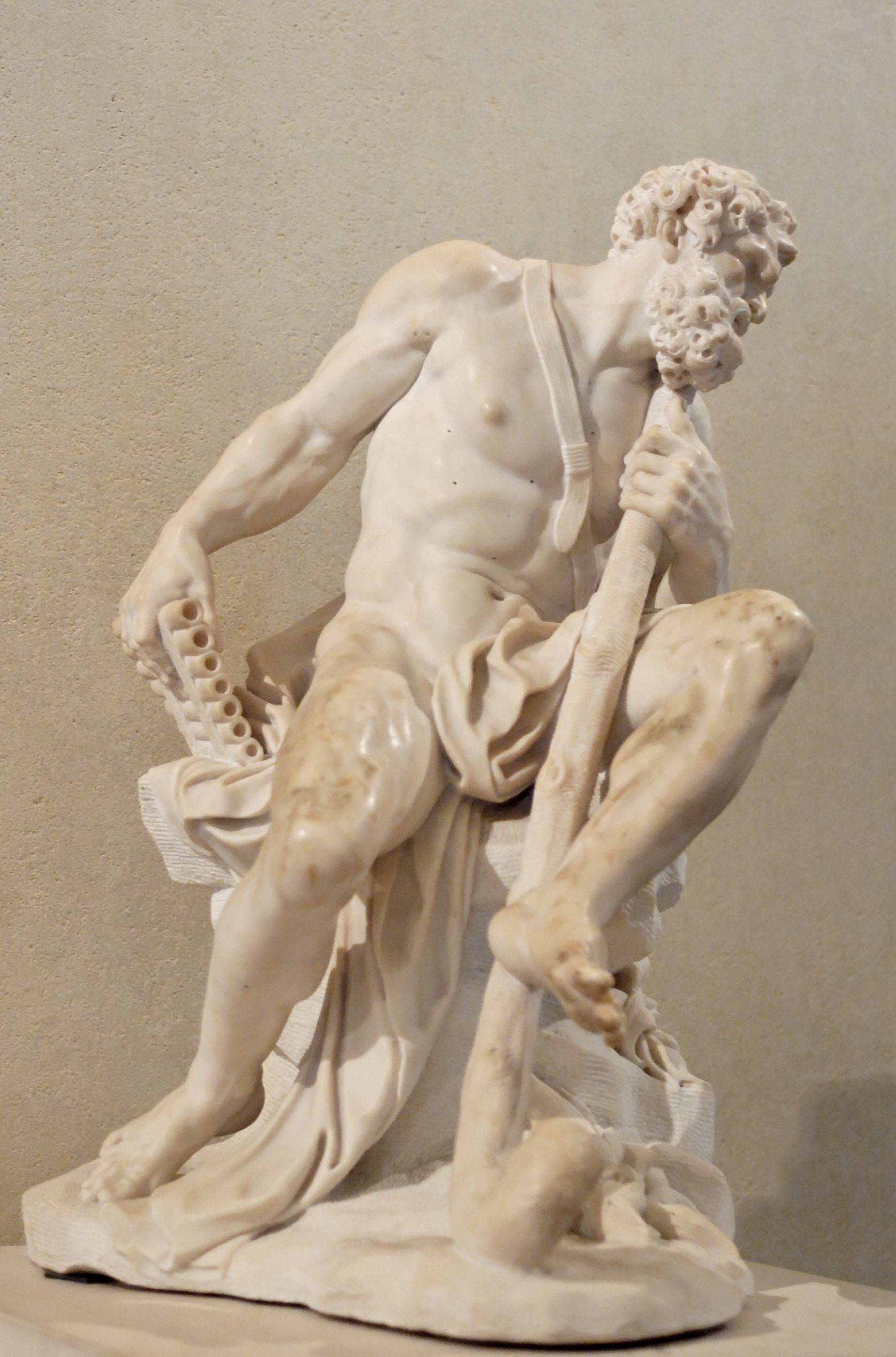 Polyphemus pining for the nymph Galatea. Marble, 1681, reception piece for the French Royal Academy of Painting and Sculpture.